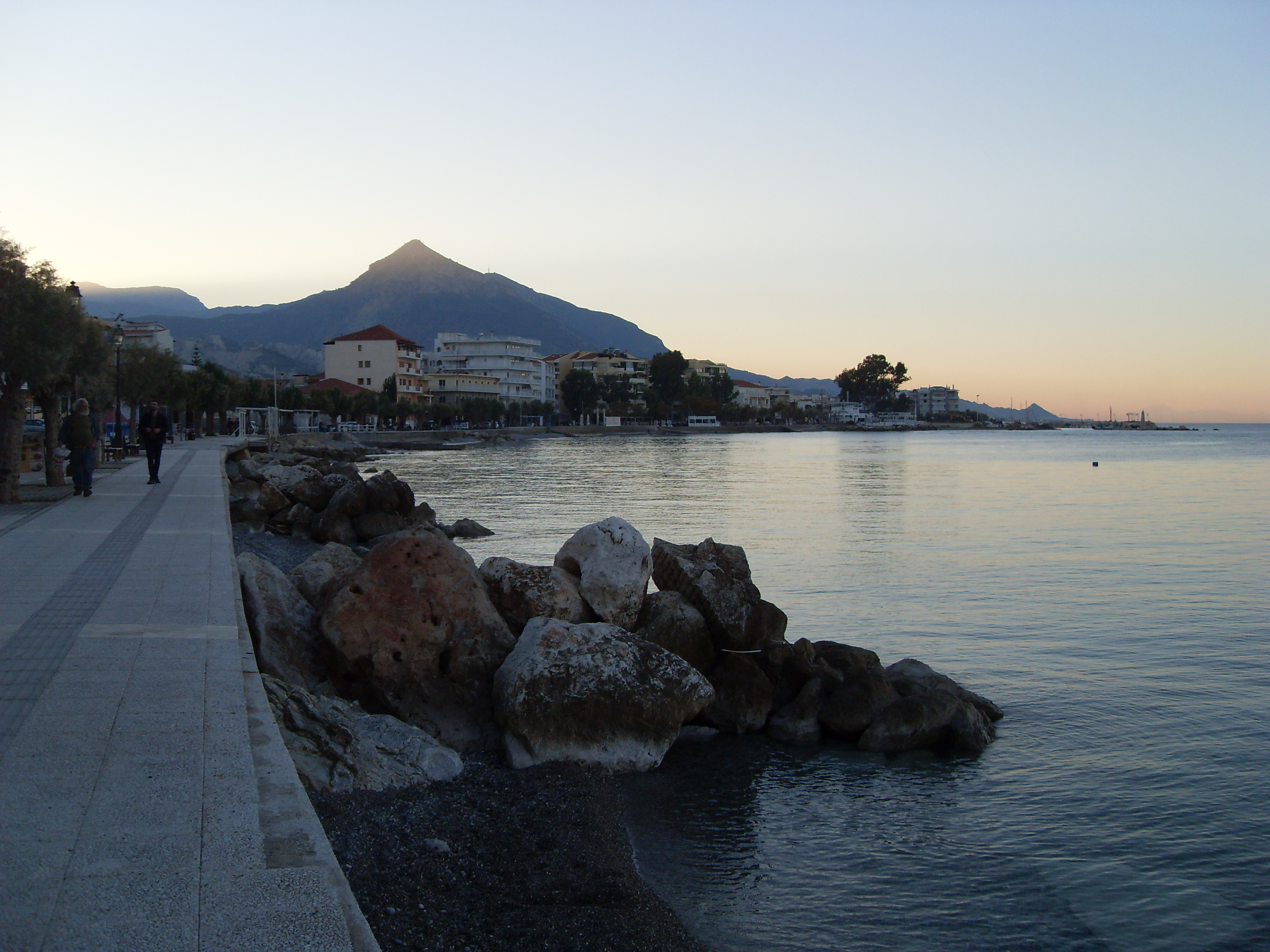 seaside of xylokastro